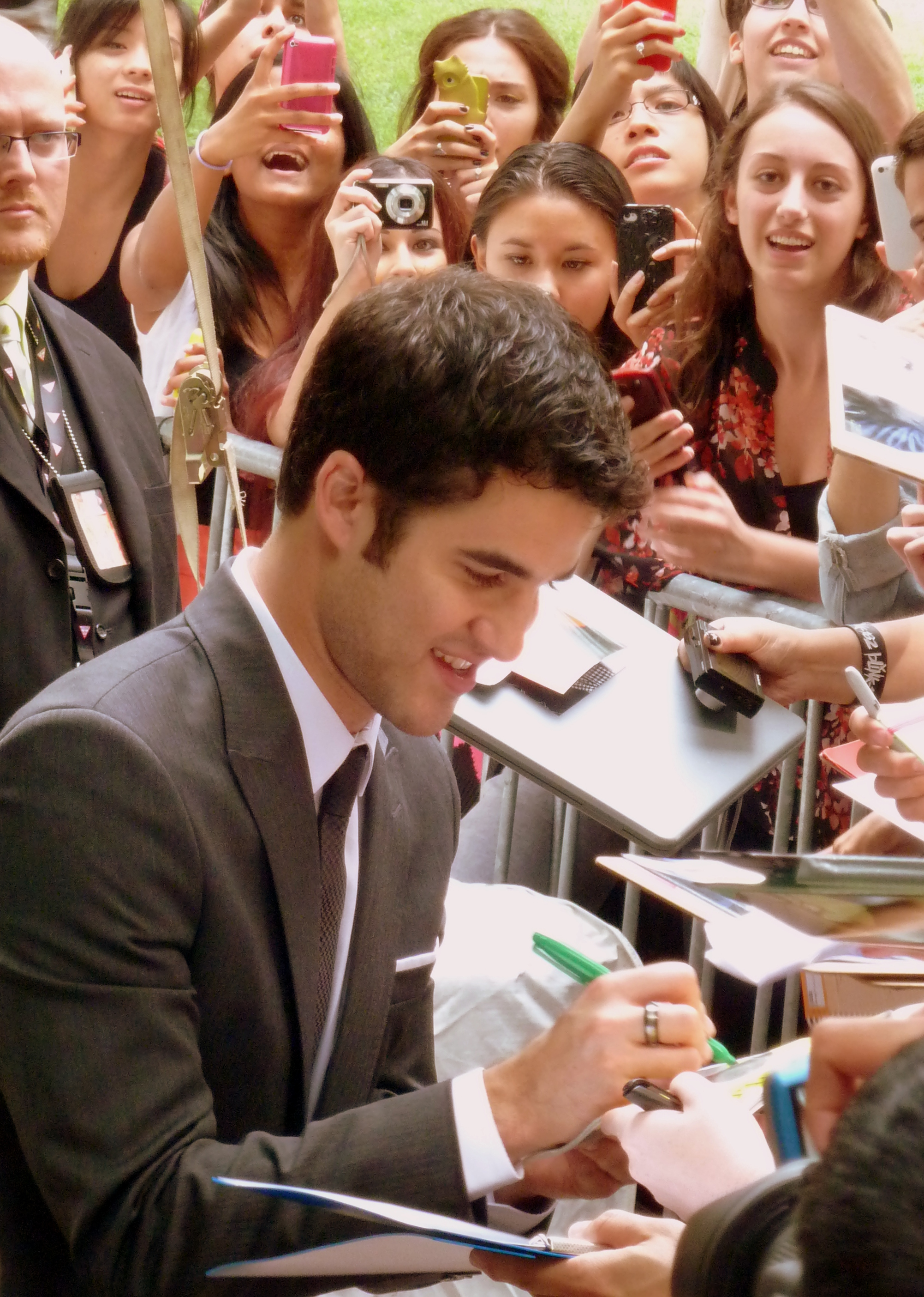 Darren Criss at the premiere of Girl Most Likely, Toronto Film Festival 2012 The name of the movie changed from Imogene to Girl Most Likely